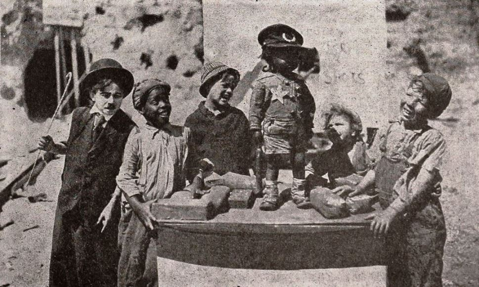 Still from the American comedy short film The Big Show (1923), on page 657 of the February 24, 1923 Exhibitor's Trade Review.